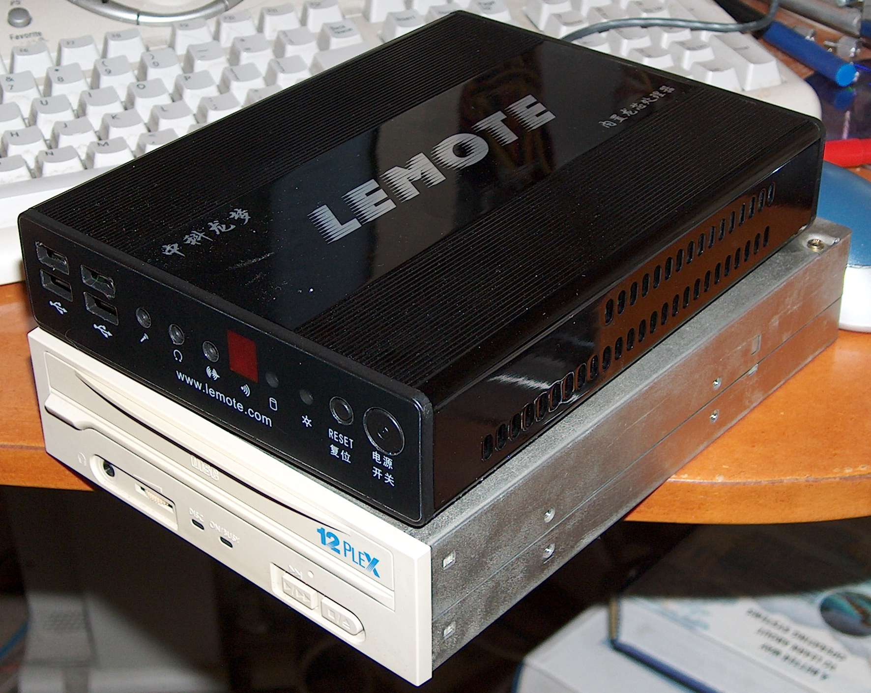 Lemote Fulong Minicomputer (with a standard SCSI CD-ROM drive as a size reference) running a 660MHz Loongson2E processor.